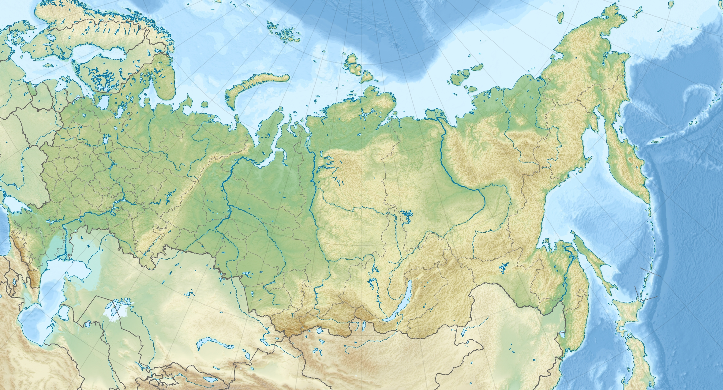 Location map of Russia. EquiDistantConicProjection : Central parallel : * N: 54.0° N Central meridian : * E: 100.0° E Standard parallels: * 1: 49.0° N * 2: 59.0° N Made with Natural Earth. Free vector and raster map data @ .